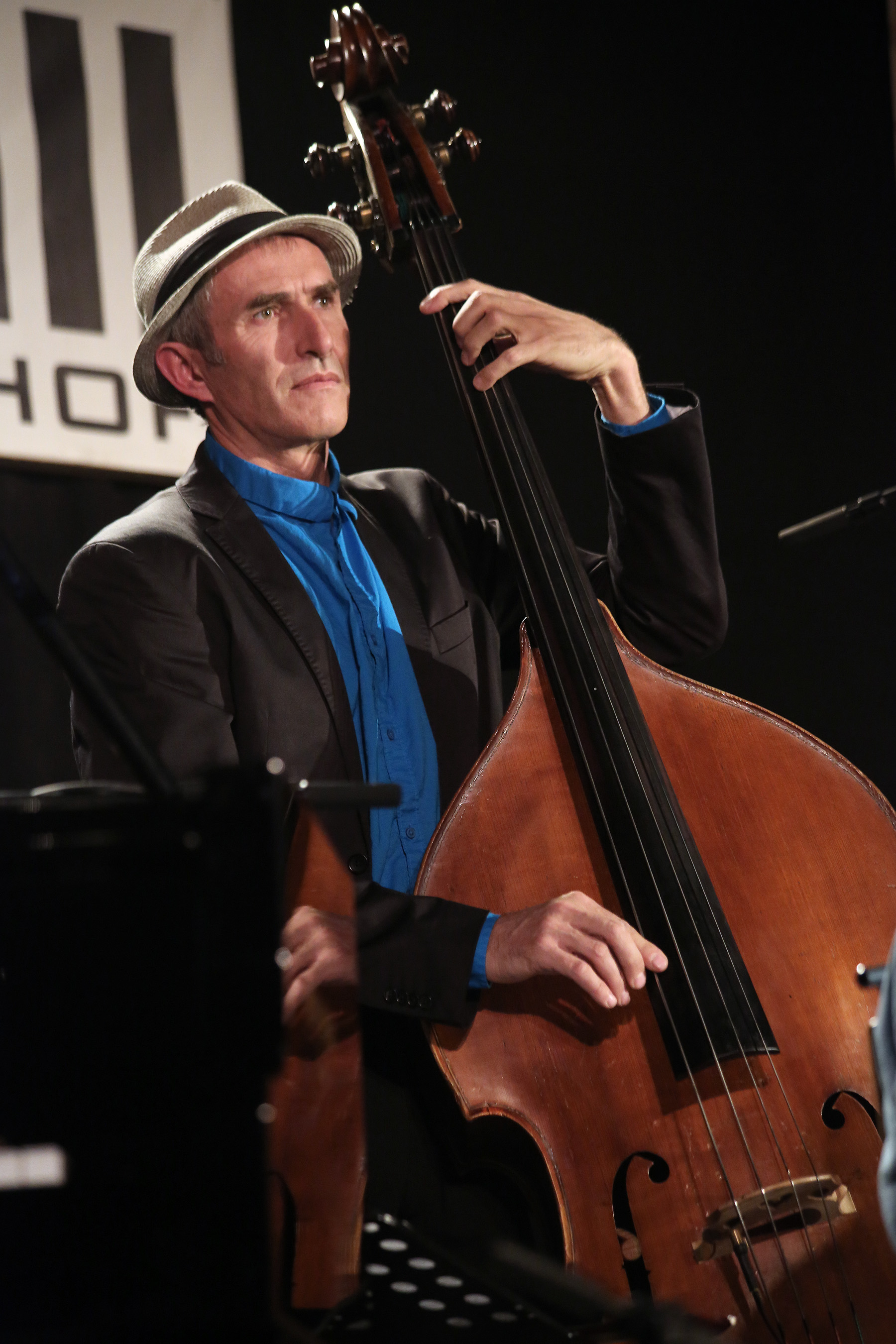 Mansur Scott (voc, perc), Howard Johnson (bar, tub, fl), Oliver Kent (p), Wolfram Derschmidt (b), Mark Johnson (dr) - INNtöne Jazzfestival (Diersbach, Upper Austria)